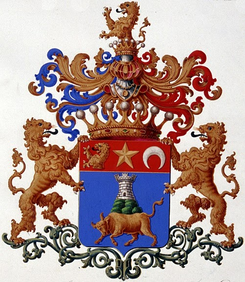 Coat of arms of Girard de Soucanton family.